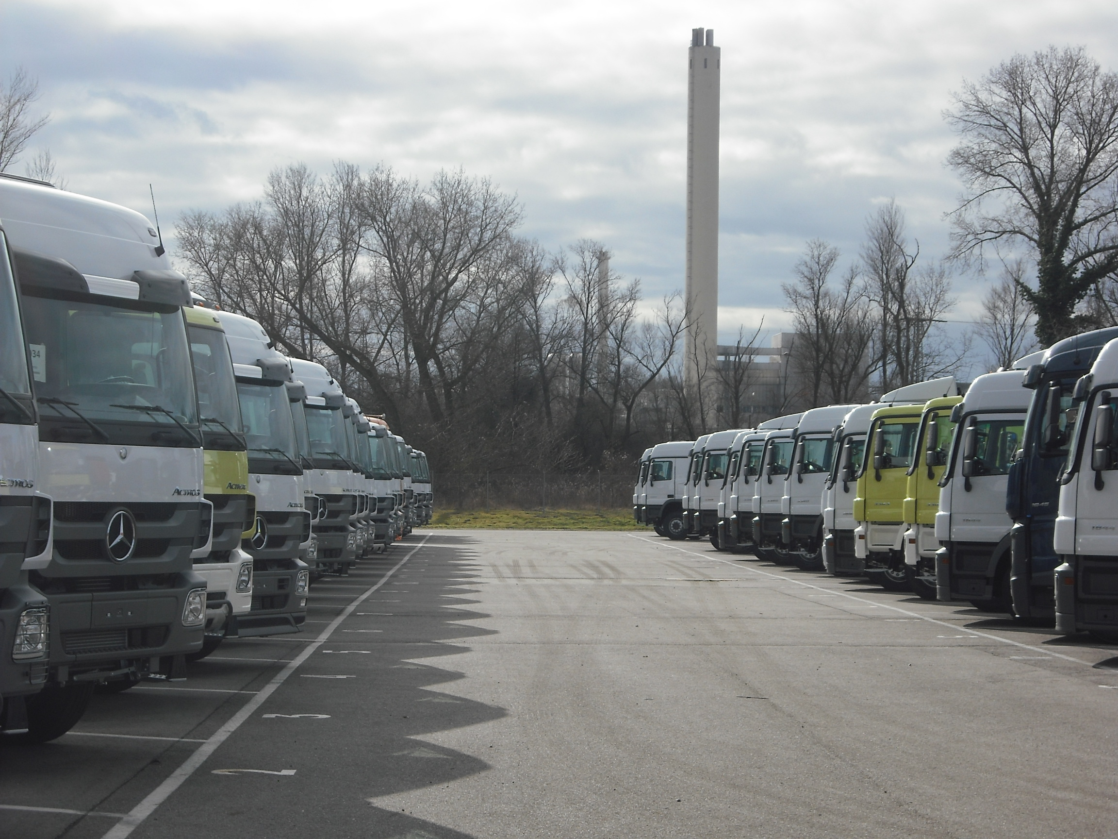 Woerth new Daimler Trucks